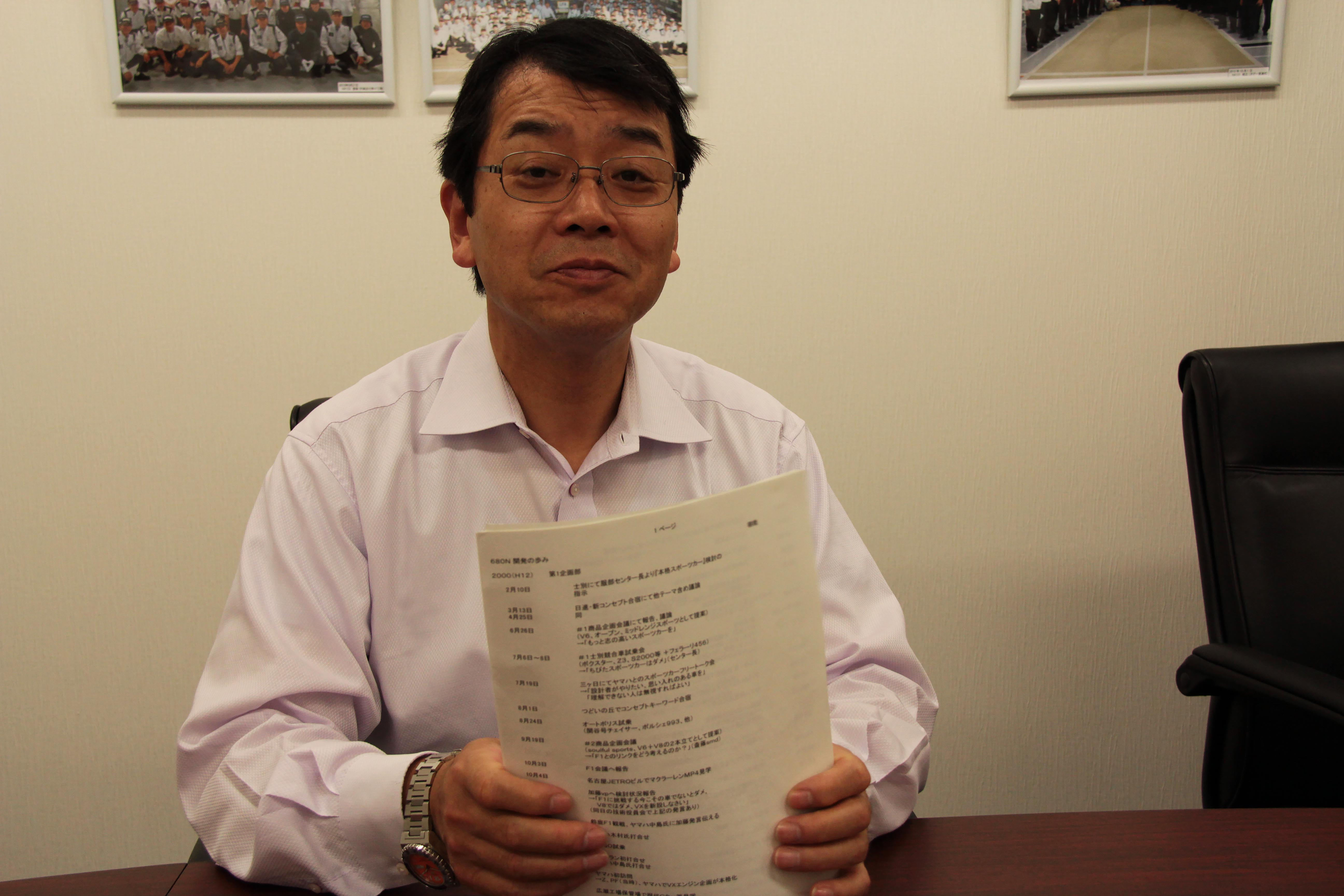 Haruhiko Tanahashi holds pages of the Lexus LFA project diary. Meeting room, Motomachi Plant